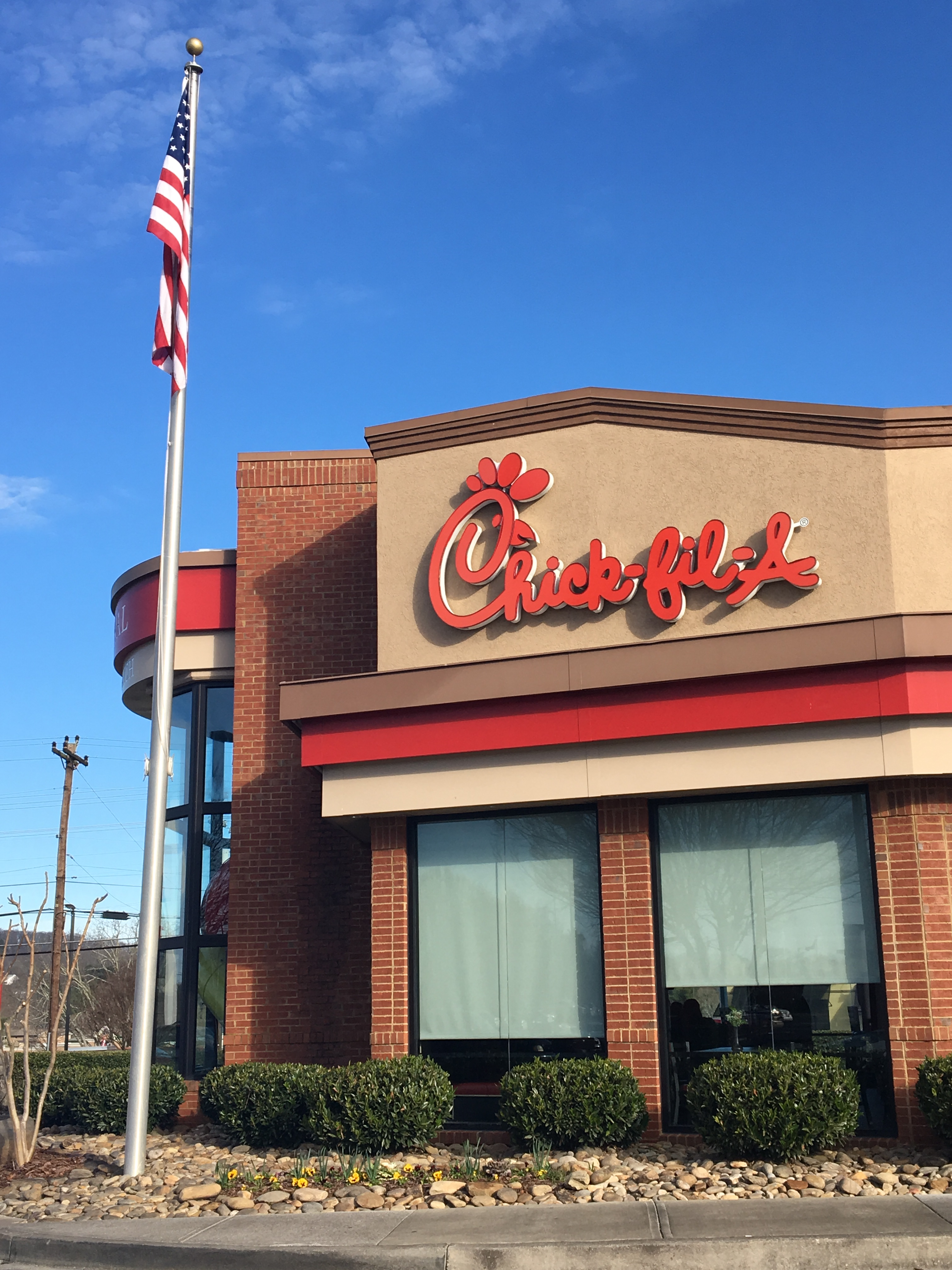 American fast food restaurant Chick-fil-A in Morristown, Tennessee in 2019.